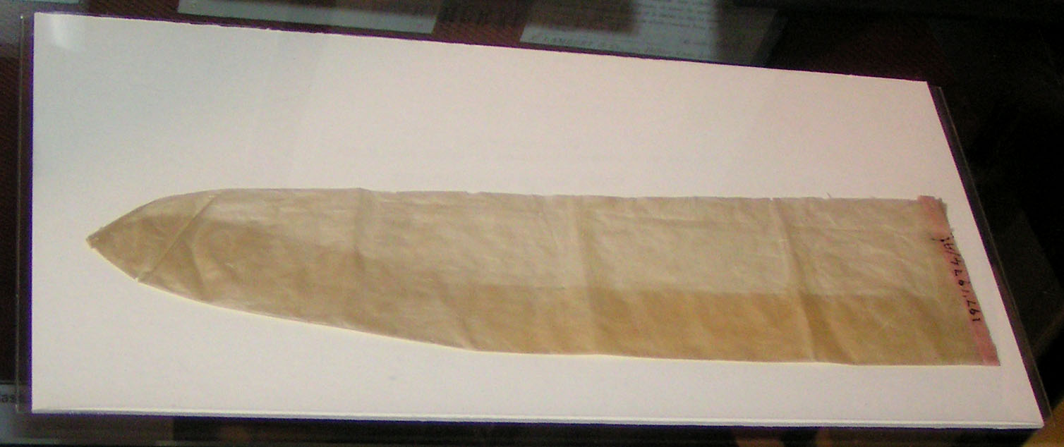 Condom by Bell & Croyden around 1900 made from an animal membrane (Caecal) (Science Museum London)